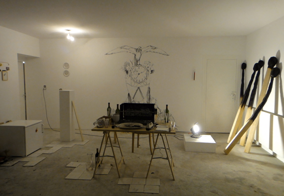 Stéphanie Pfister, Installation, espace kugler, Genève